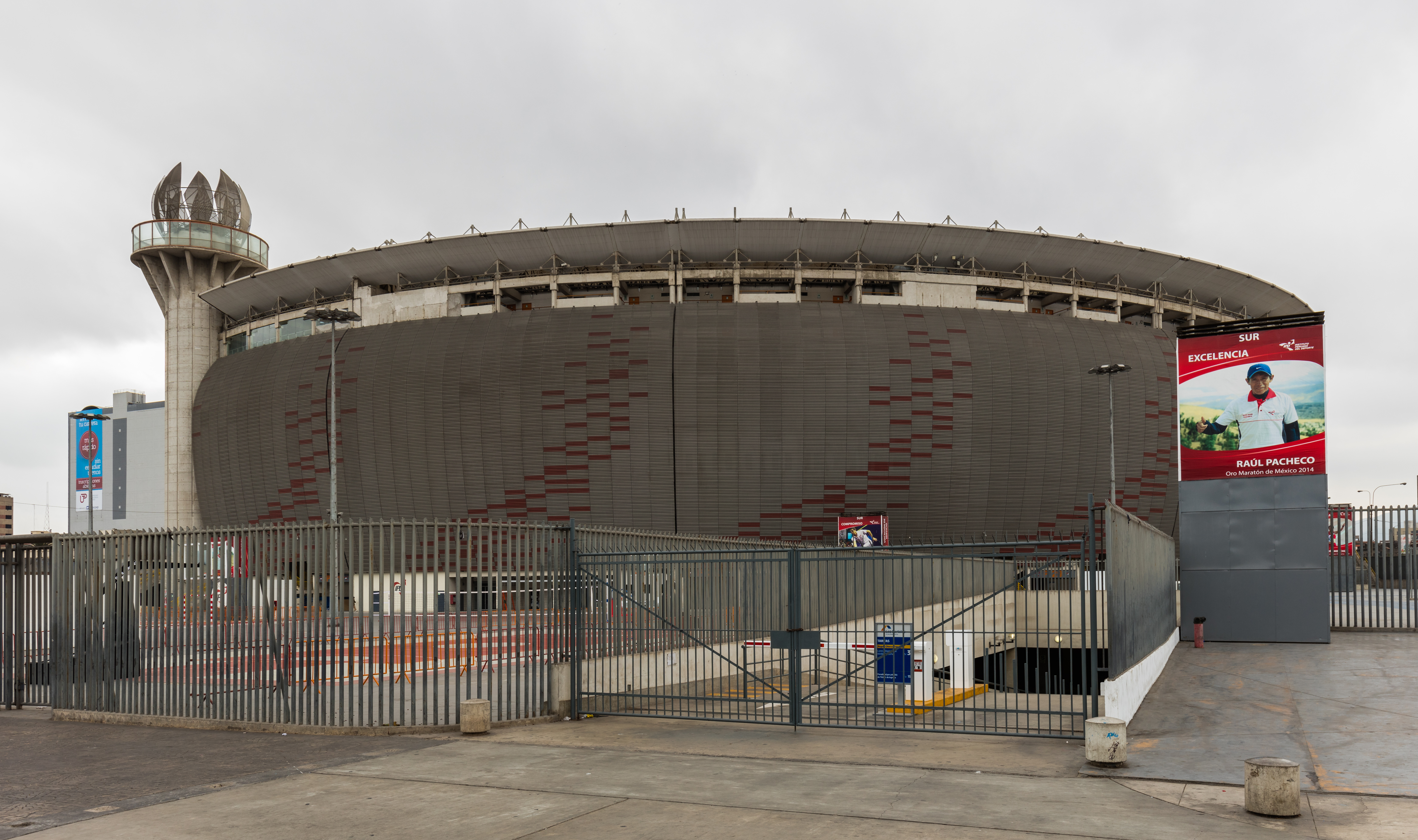 National Stadion, Lima, Peru